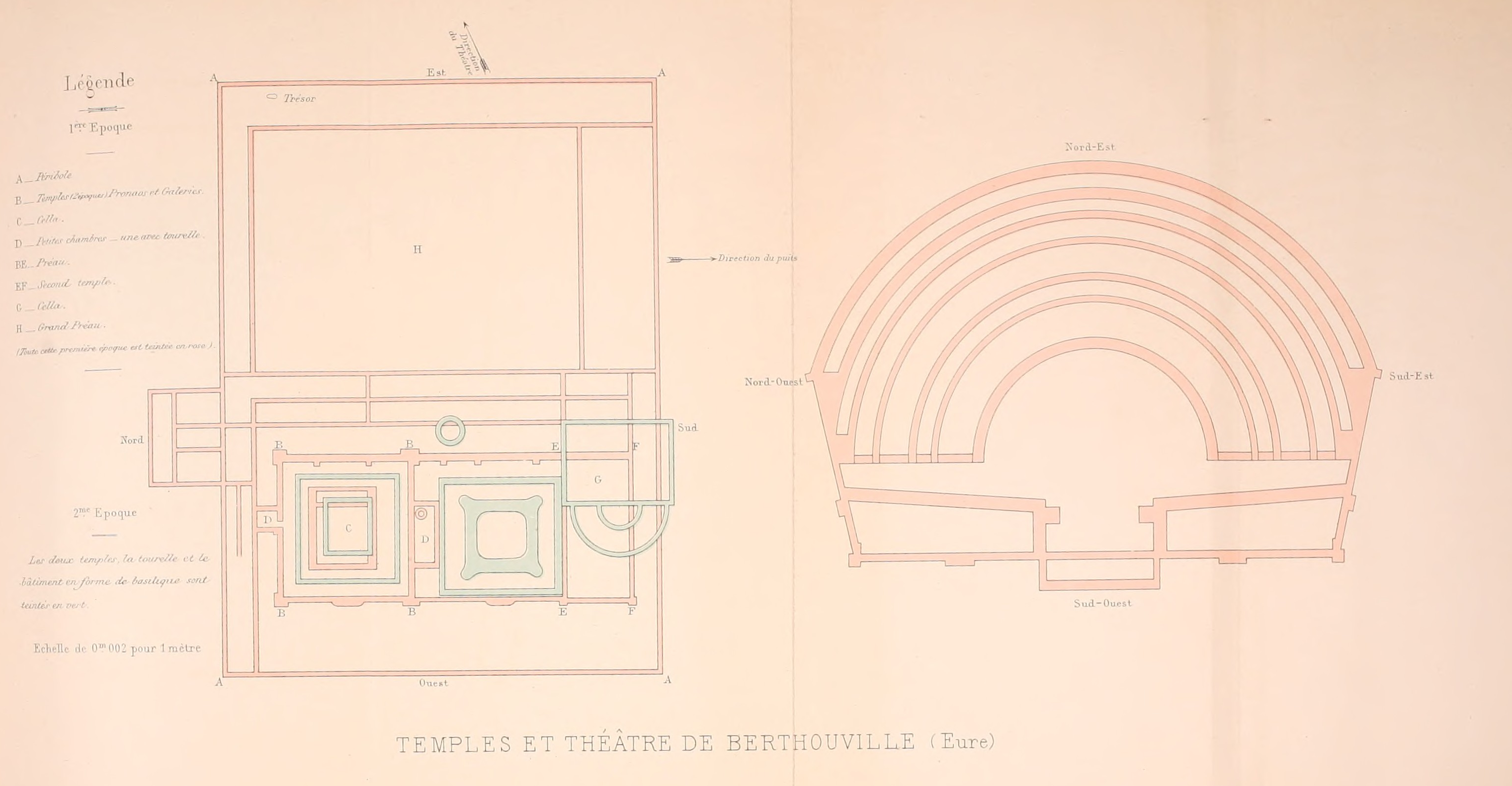 Plan of the Gallo-Roman theatre and Mercury temples in Berthouville, France.